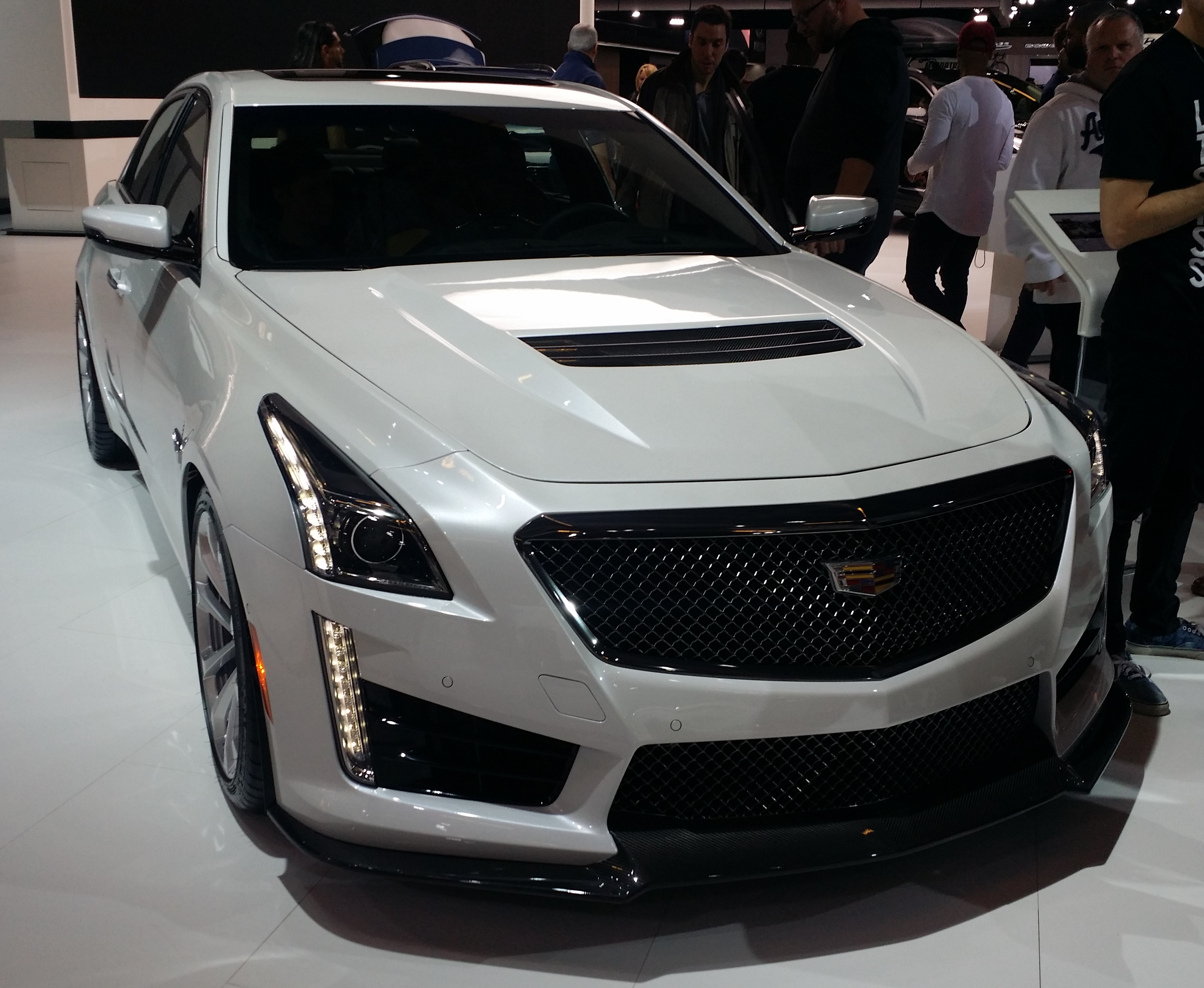 2019 Cadillac CTS-V photographed in Montréal , Québec , Canada at the 2019 Montréal International Auto Show.